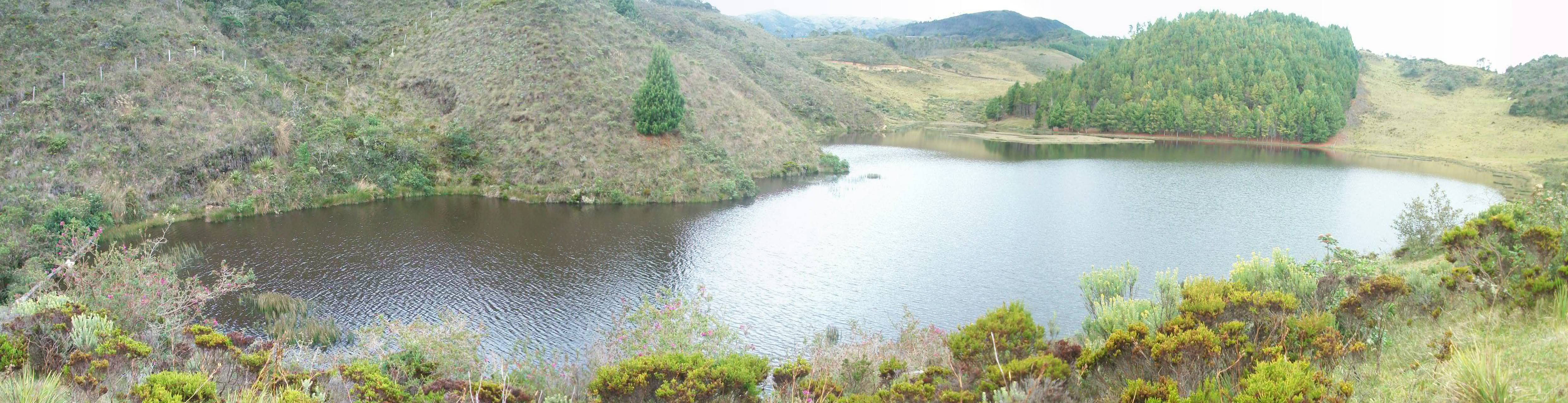 Lake of Cacota, Vereda Mata de Lata, Municipio of Cácota, Páramo de Santurbán